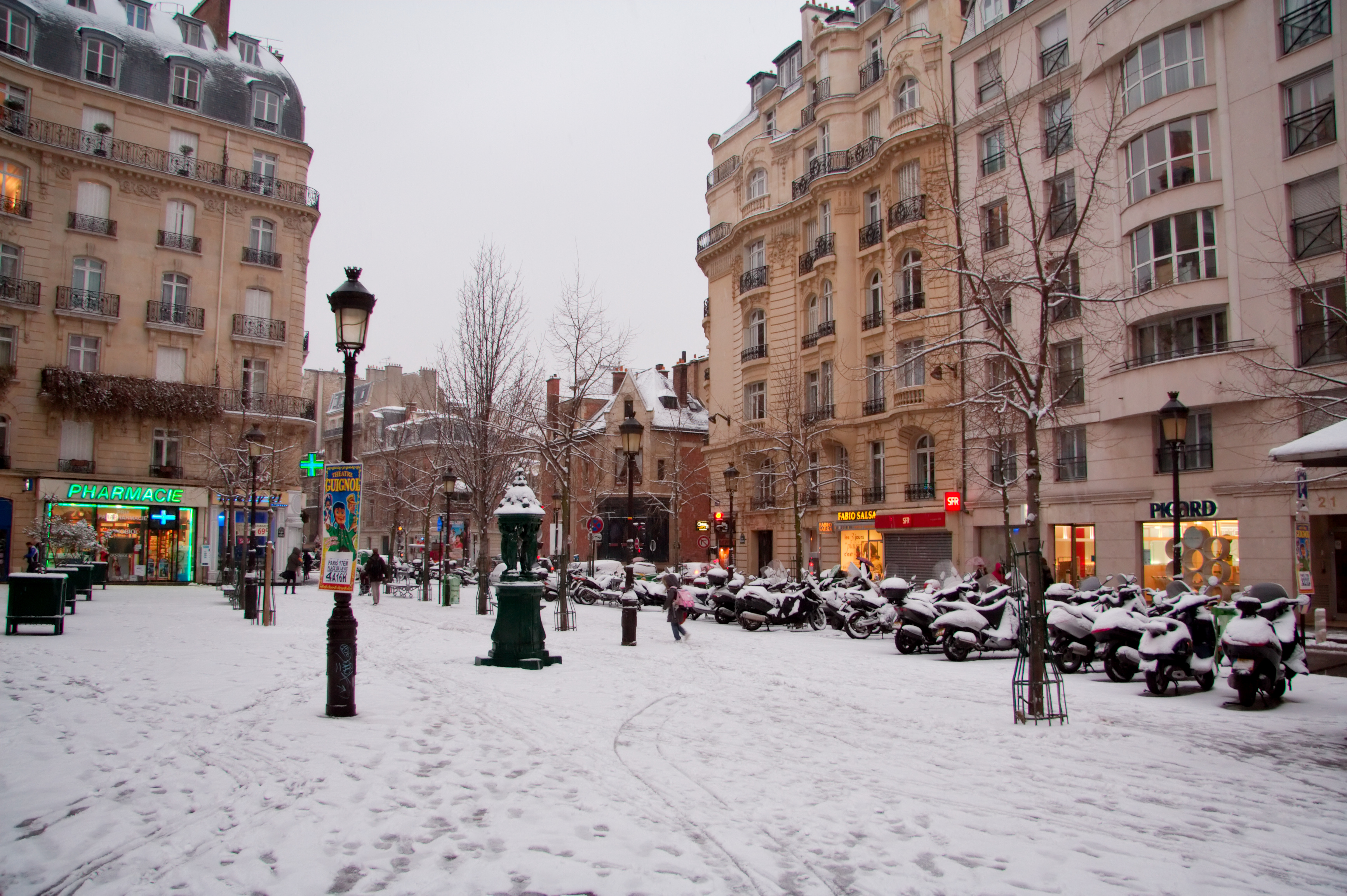 City square Place de Lévis, Paris, France.